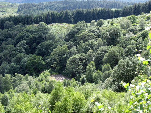 Forest enclosed spoil tips at Gwynfynydd Gold Mine